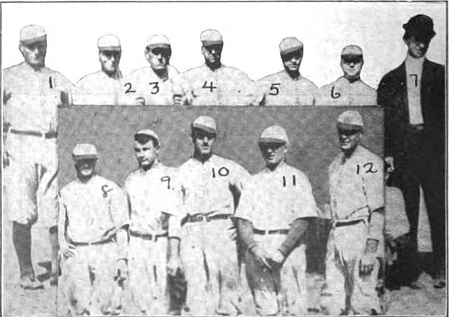 The Western Tri-State League champion Walla Walla Bears.